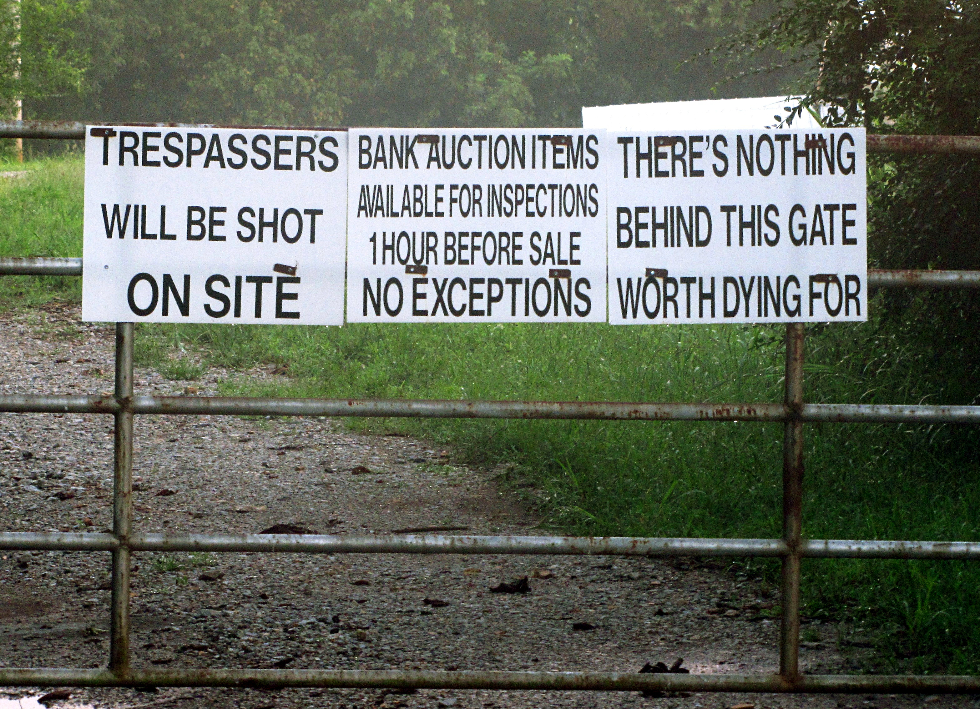 No Trespassing signs at an auction storage site in Putnam County, Tennessee, USA. "Trespassers will be shot on site," and "There's nothing behind this gate worth dying for."